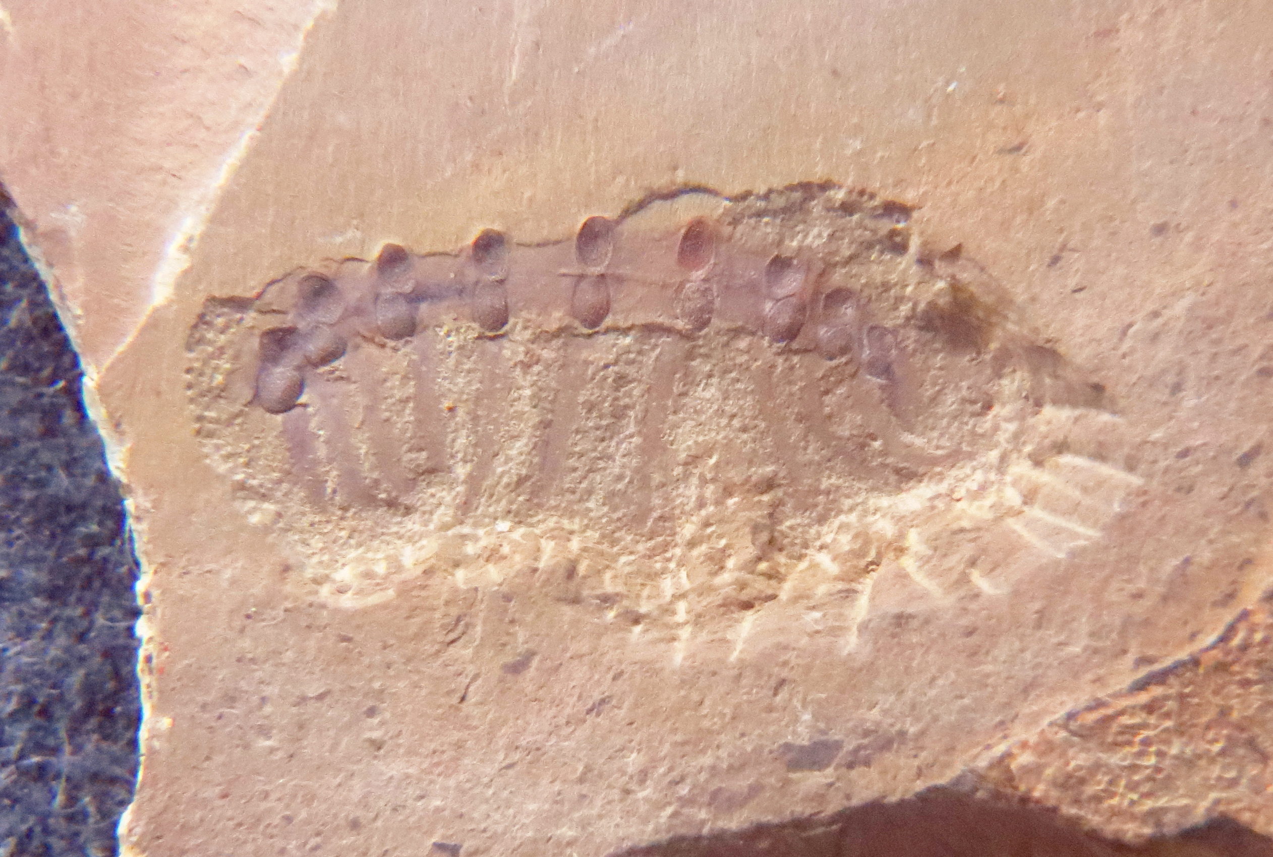 Fossil of Microdictyon on display at the Chengjiang fossil site museum (photographed through glass)